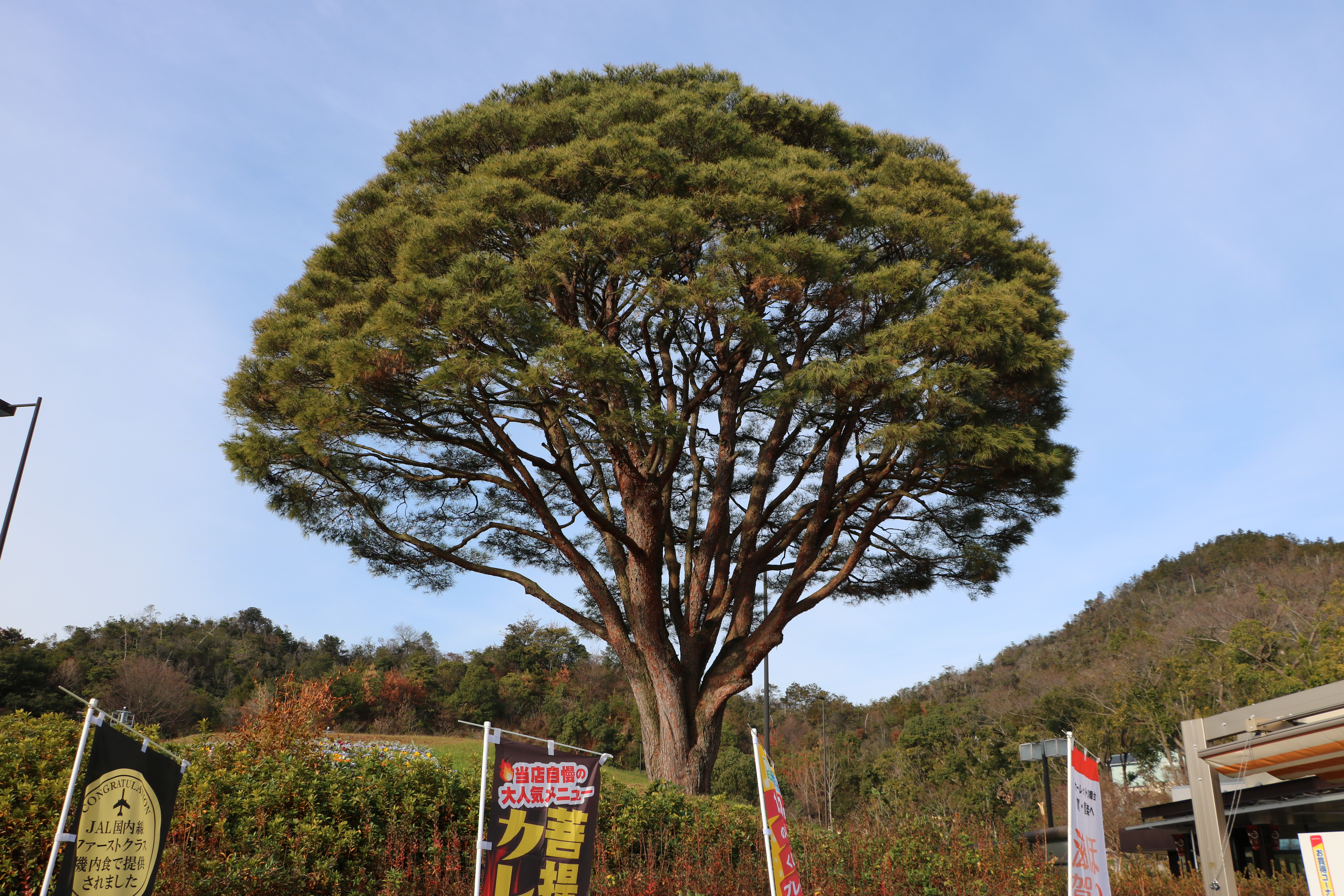 Pinus densiflora form. Umbraculifera in the Meishin Expressway Bodaiji parking area.